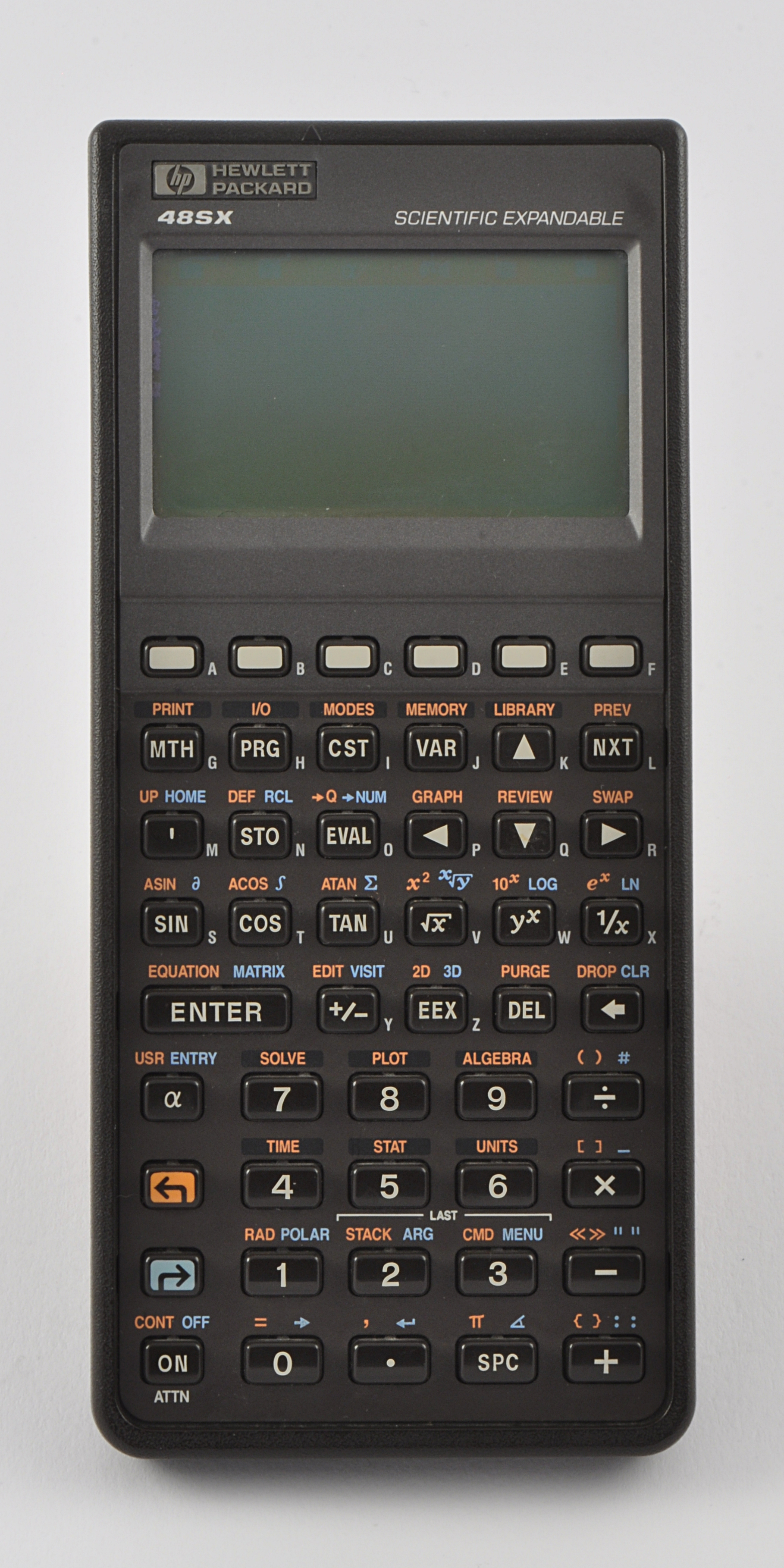 Hewlett-Packard 48SX scientific graphing calculator.